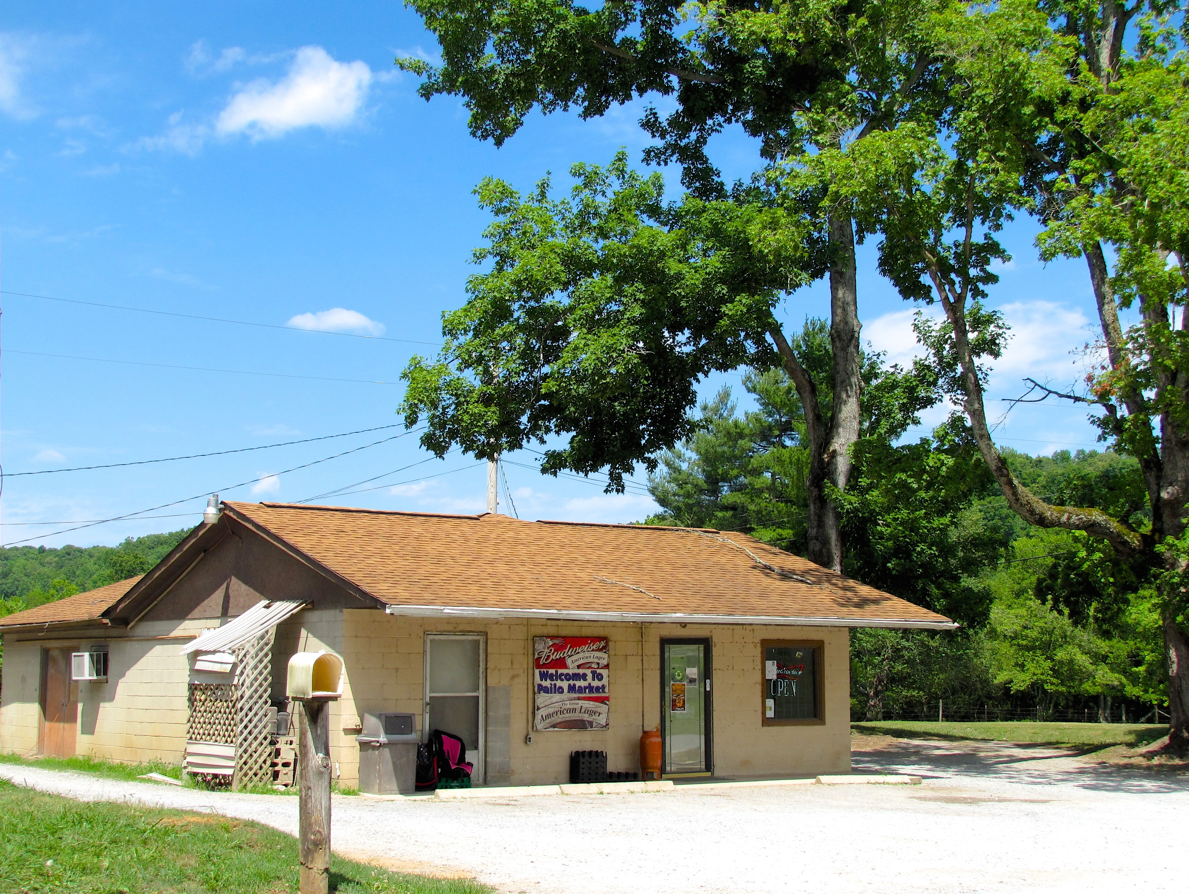 Pailo Market, located along US-127 in the Pailo area of Bledsoe County, Tennessee, United States.